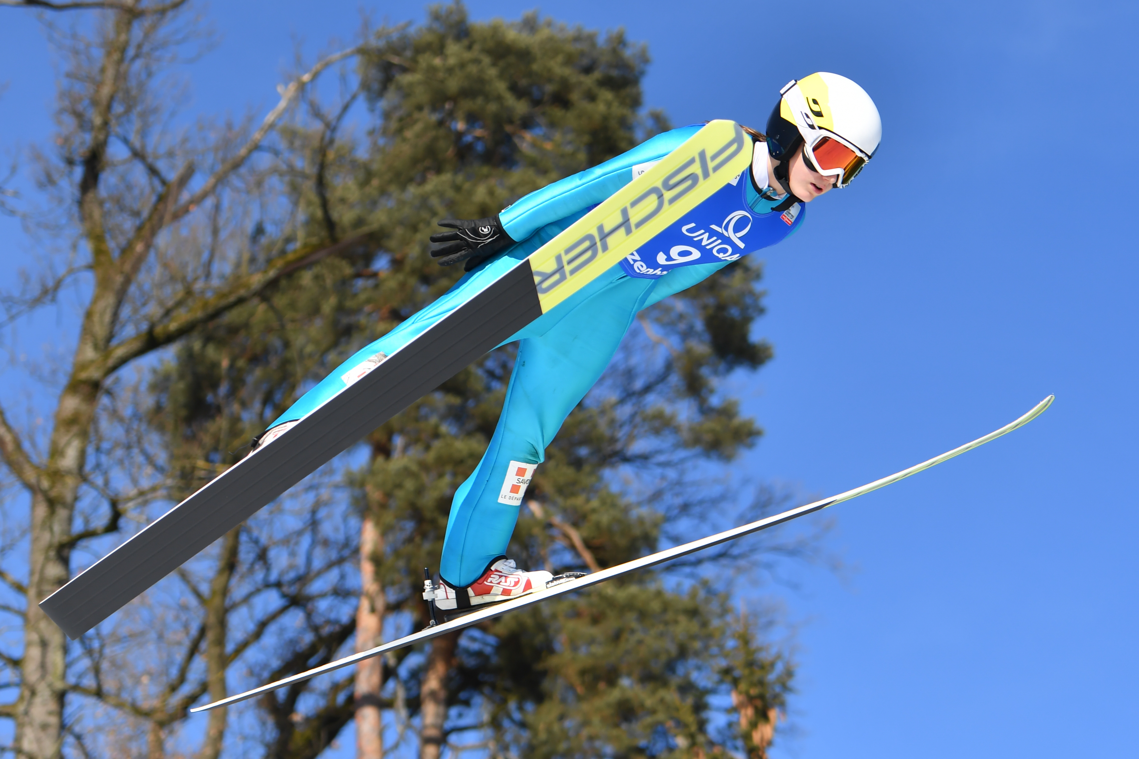 05/02/17, Hinzenbach, Austria, FIS Ski Jumping World Cup Ladies 2017